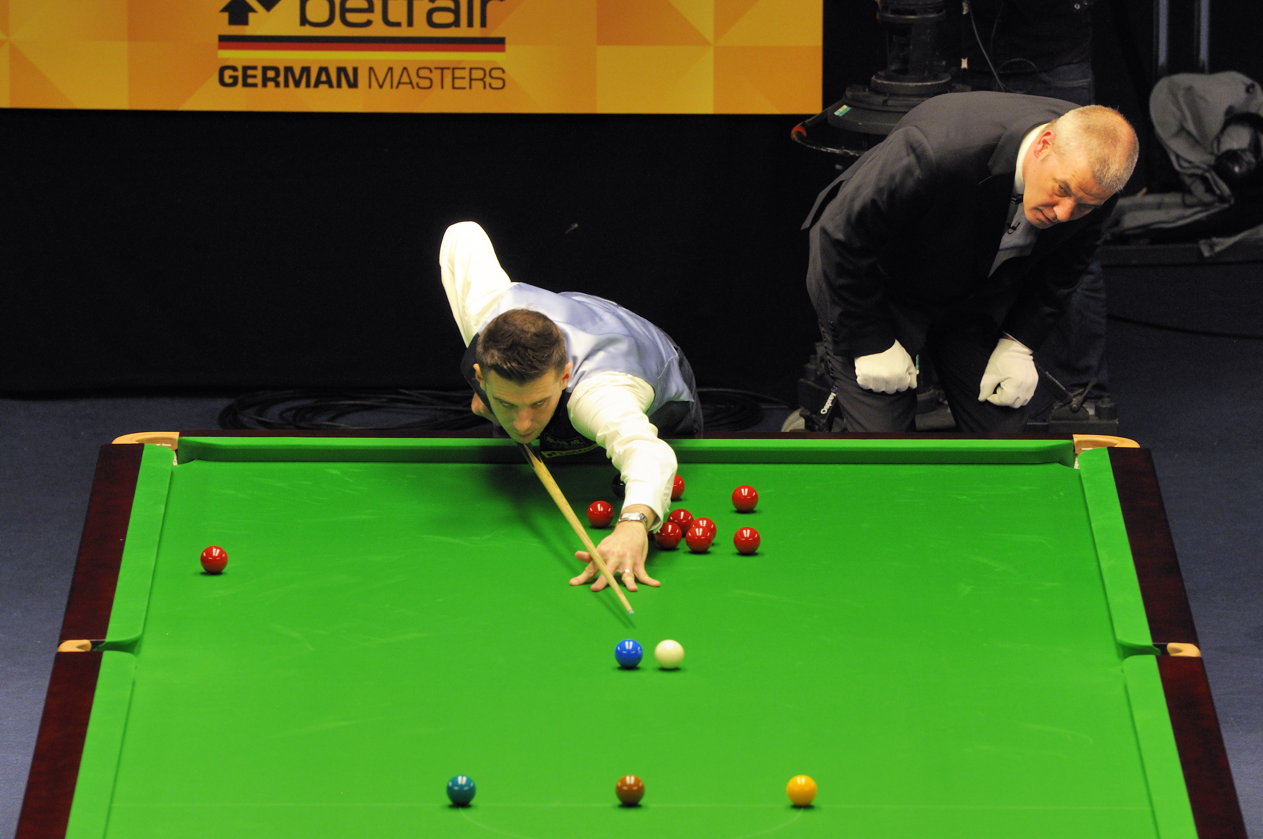 Picture taken in Berlin during the Snooker German Masters in 2013. Jan Verhaas, Mark Selby.